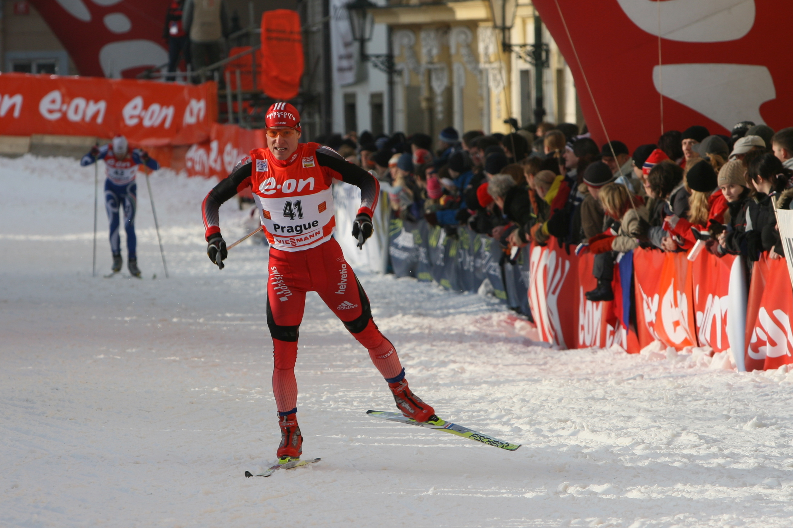 Remo Fischer in the qualification of Tour de Ski in Prague